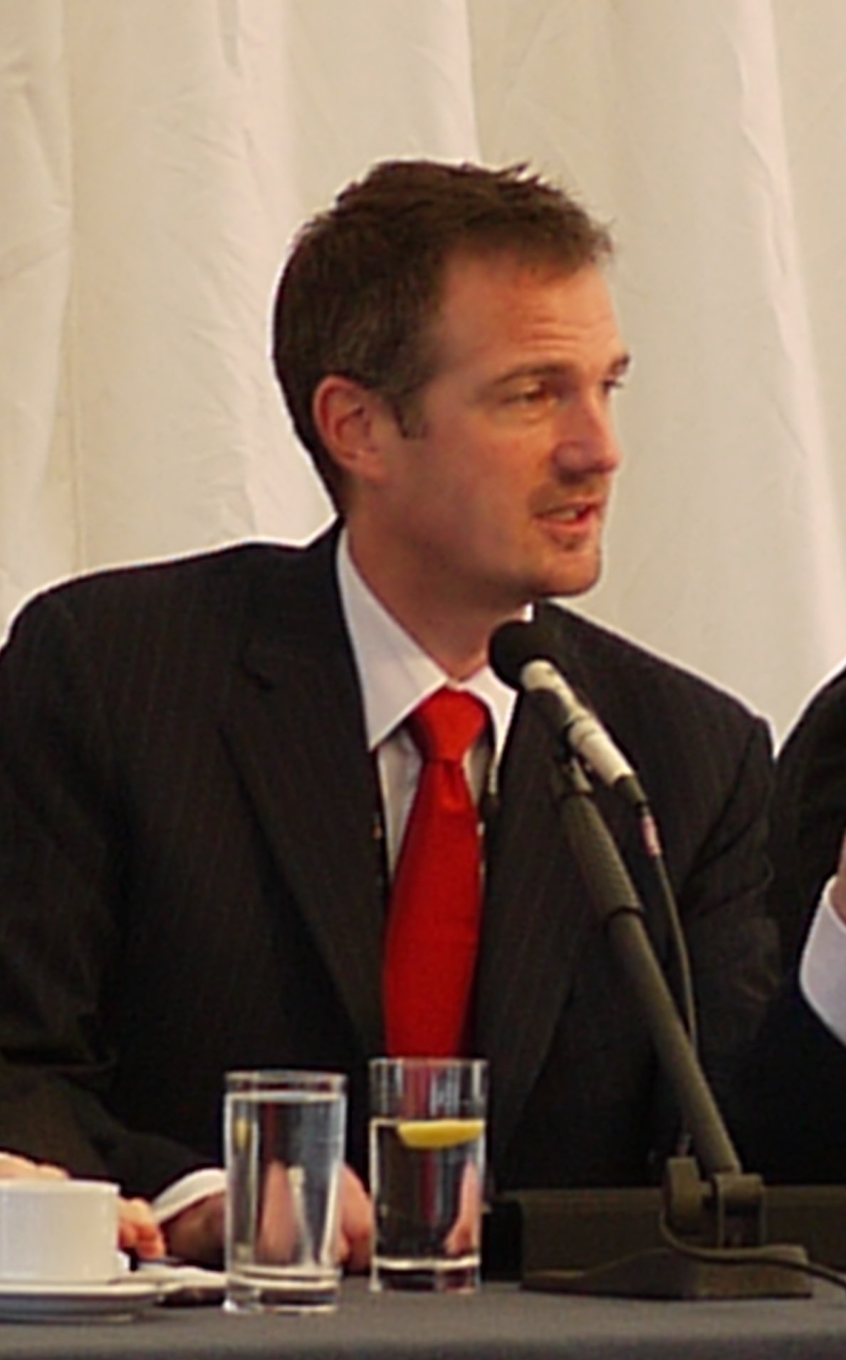 Peter Kyle